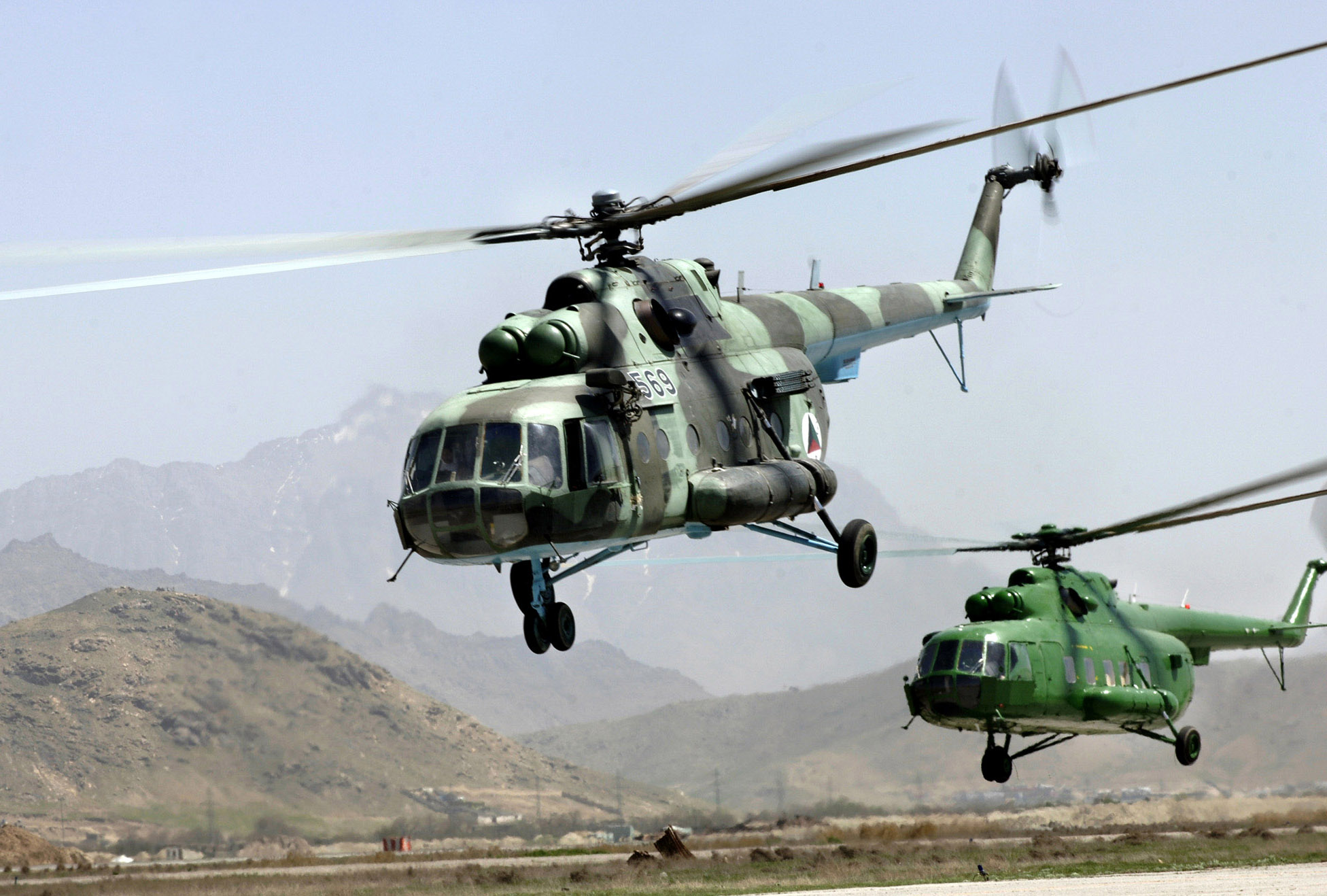 Afghan National Air Corps MI-17 helicopters take off in a formation practice. Air Force mentors assigned to Defense Reform Directorate Air Division under Combined Security Transition Command - Afghanistan provide guidance to soldiers with the Afghan Maintenance Operations Group. U.S. Air Force photo Tech. Sgt. Cecilio M. Ricardo Jr.